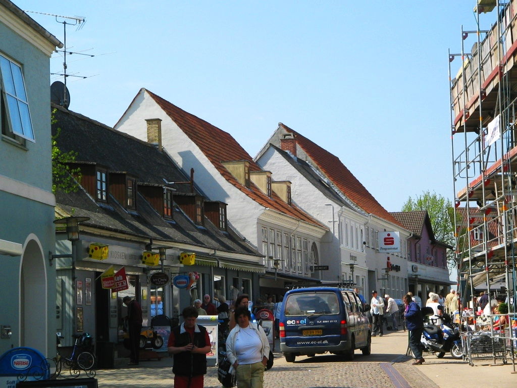 Nykøbing Sjælland is a small coastal market town in the municipality of Odsherred in North-West Zealand, Denmark. Founded in medieval times as a cattle market town its oldest houses date from the 17th century.